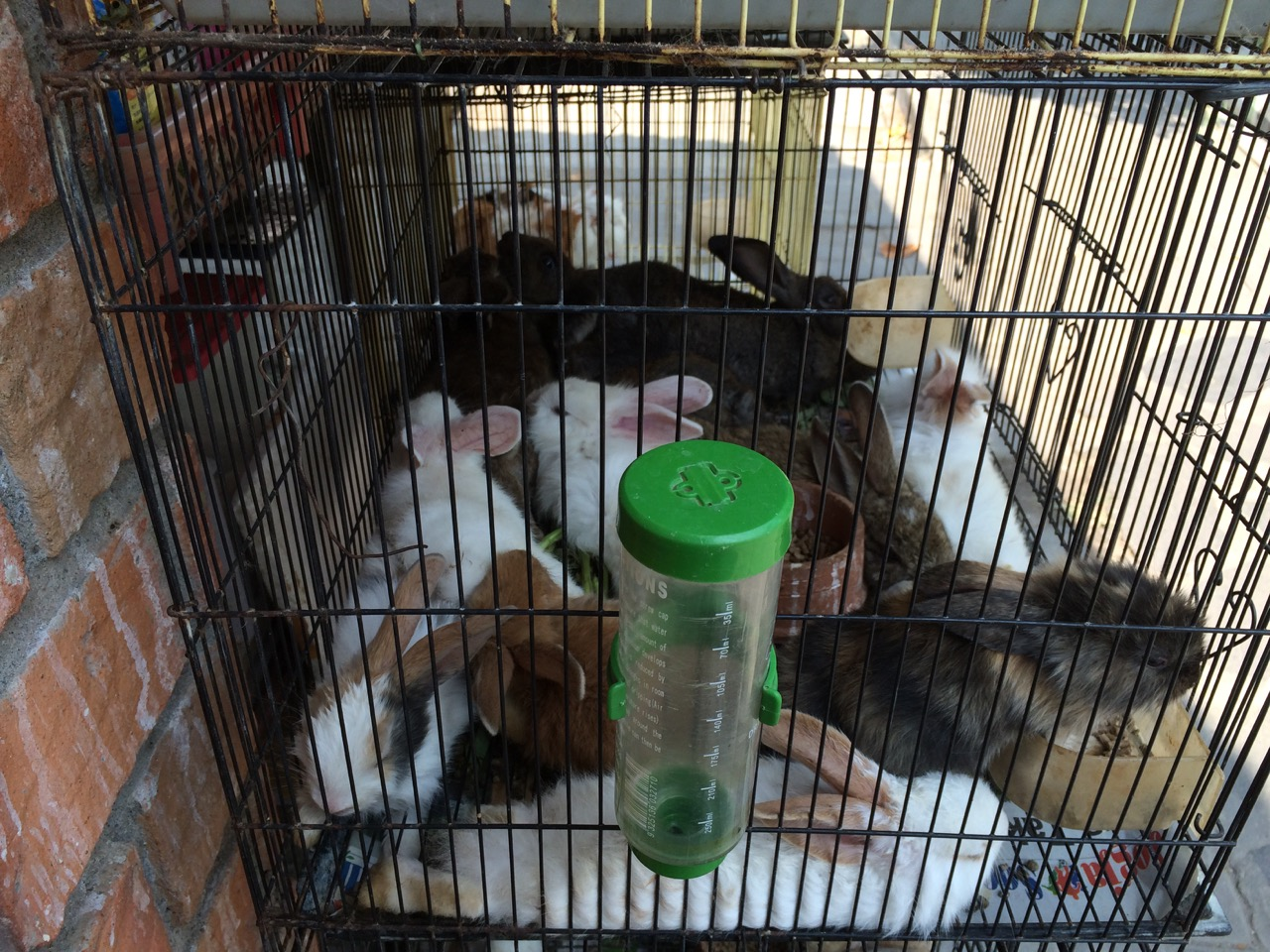 Pasty Market, Yogyakarta